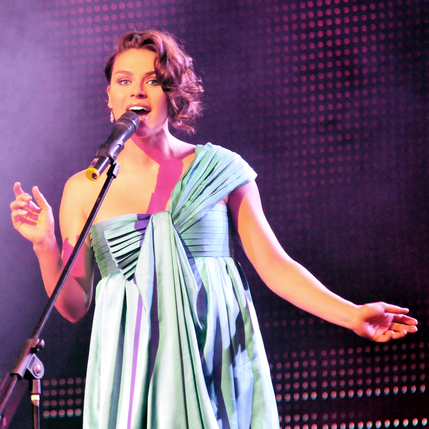 Polish actress and singer, Natasza Urbanska in October 2008 (7 months pregnant)